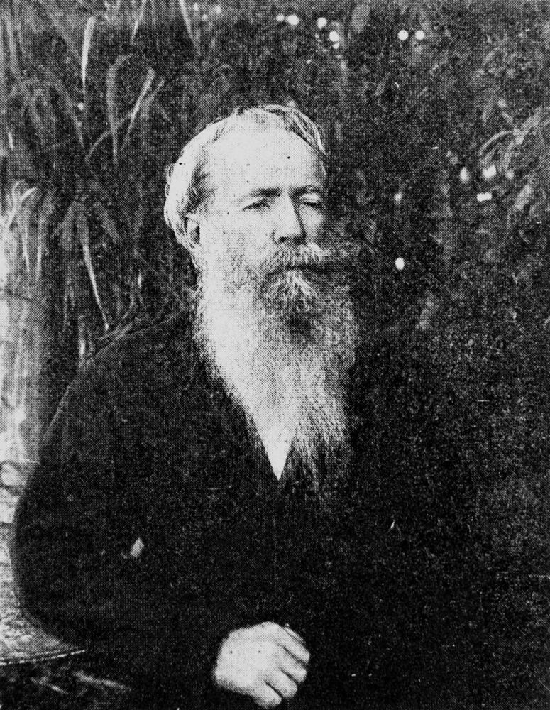 Harry Marshall was the chairman of the Waggamba Shire Council for three years. Mr Marshall had been blind for 45 years when this photograph was taken. (Information taken from The Queenslander, 13 May 1905, p. 20).